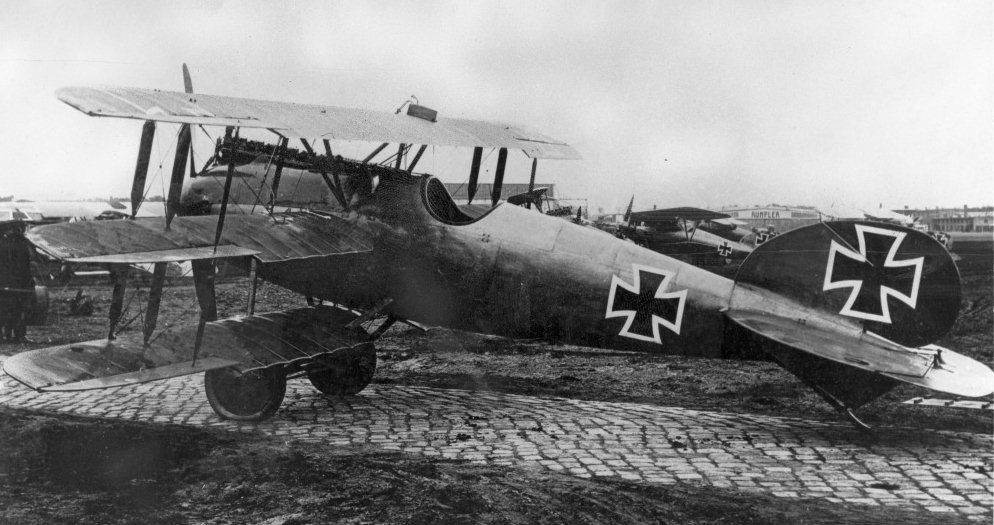 Albatros Dr.I